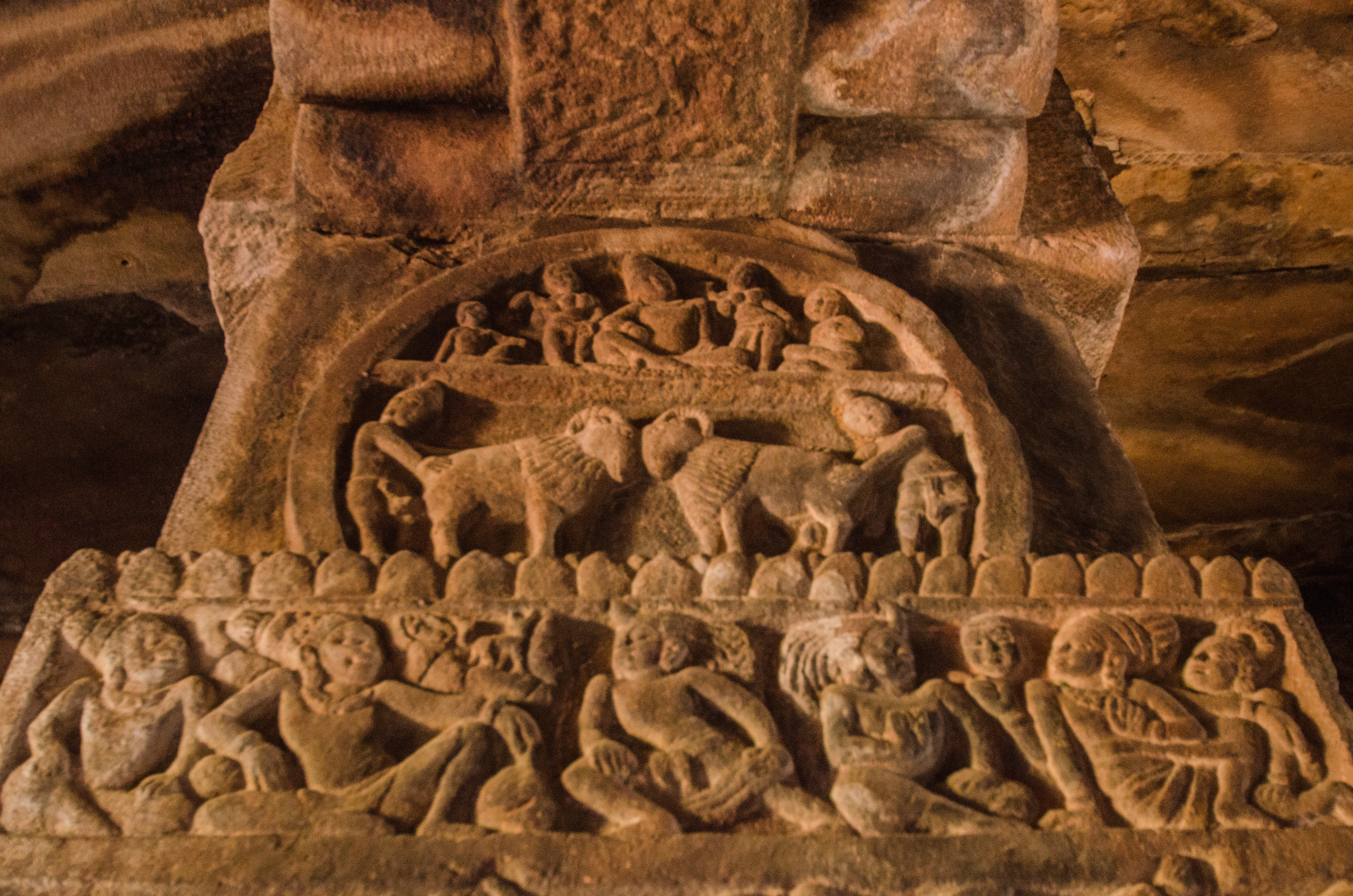 UNESCO World Heritage Site